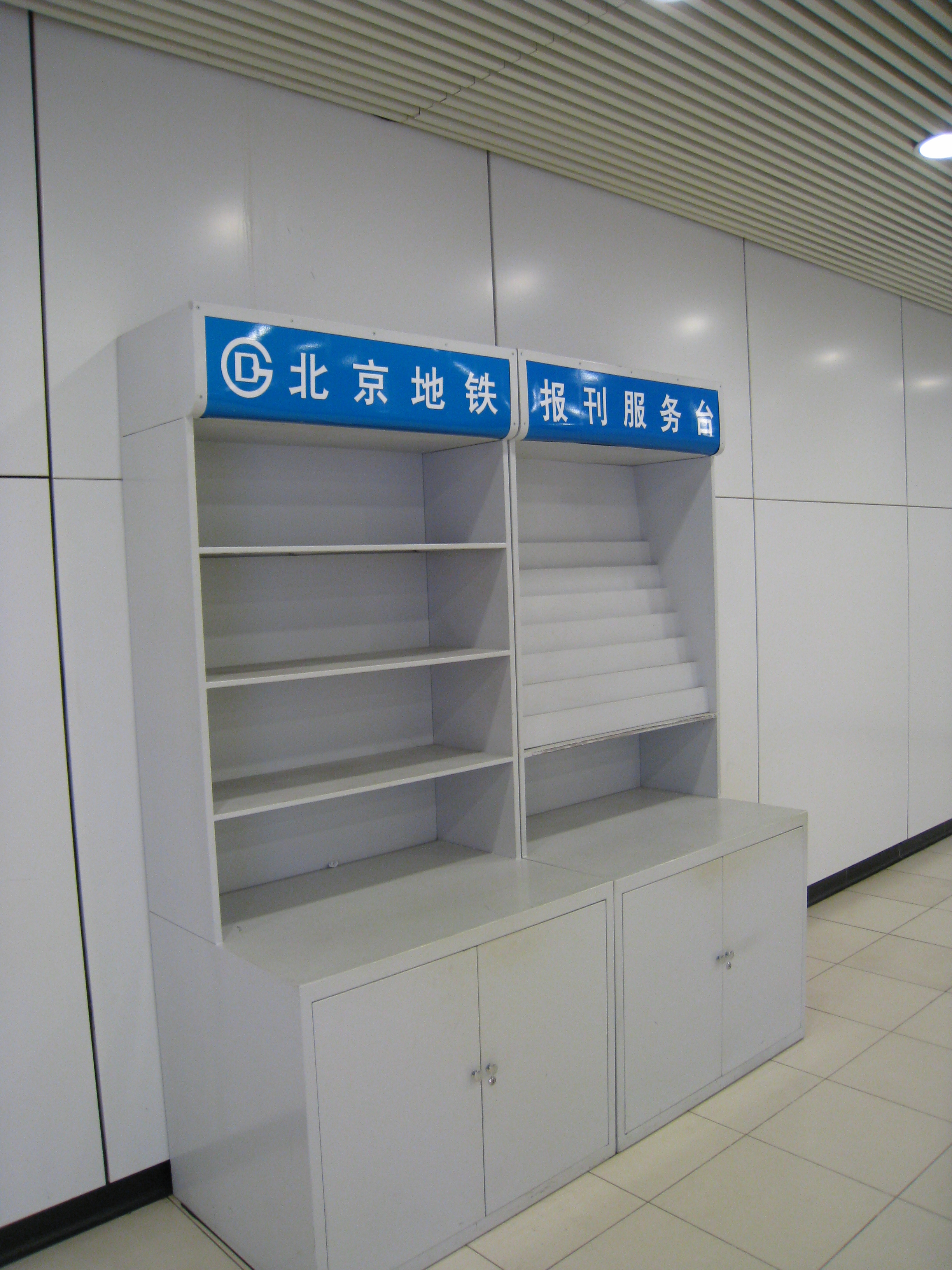 An empty newspaper site in Jintaixizhao station. Beijing Subway. It's after the prohibition of selling newspaper in Beijing Subway has canceled.